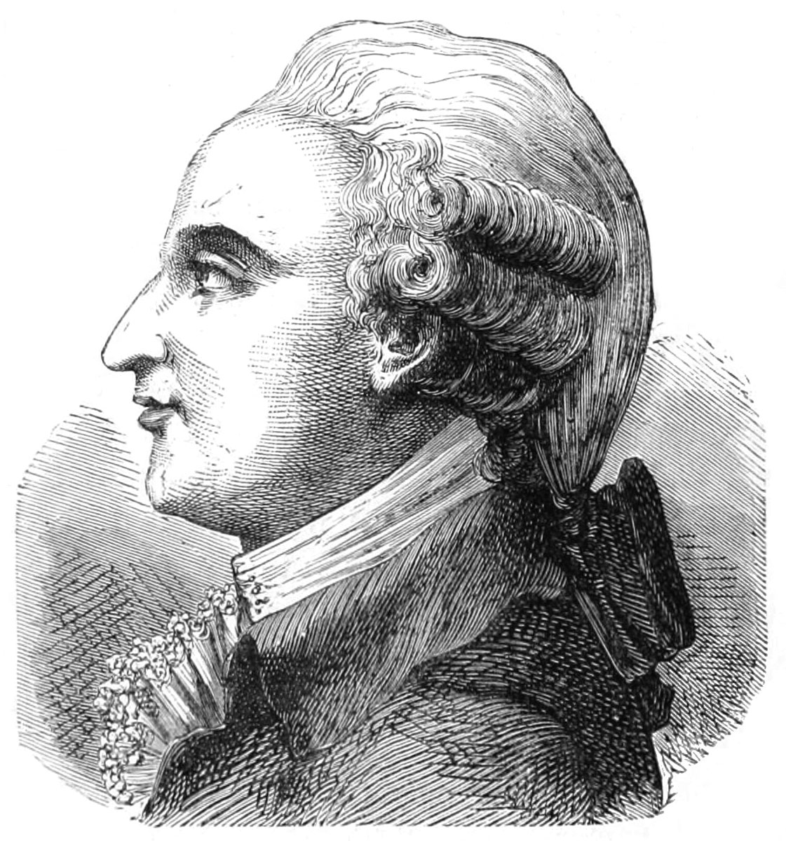 Illustration, "Blanchard" (Jean-Pierre Blanchard) from Wonderful Ballon Ascents